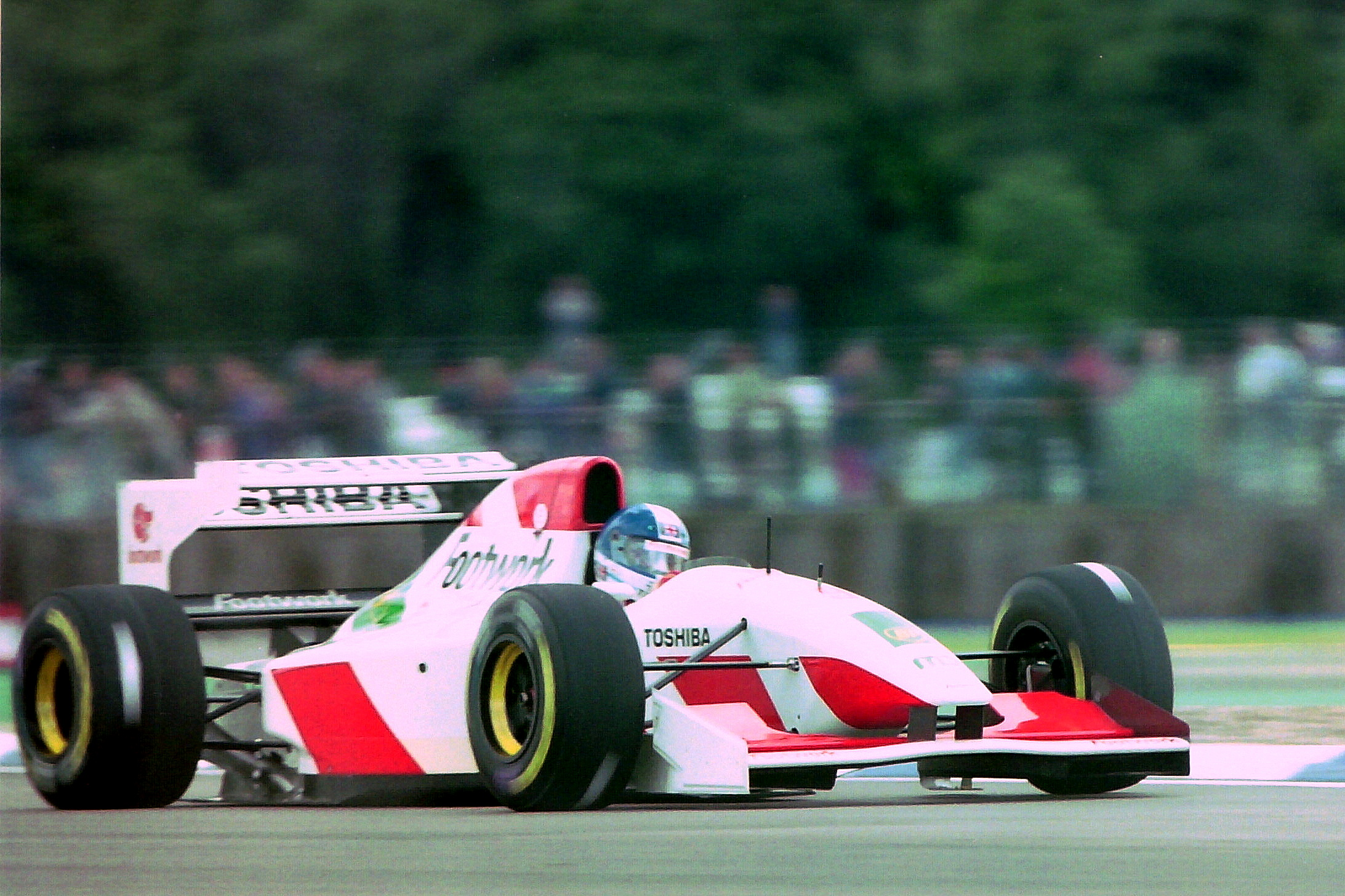 Derek Warwick - Footwork FA14 during practice for the 1993 British Grand Prix